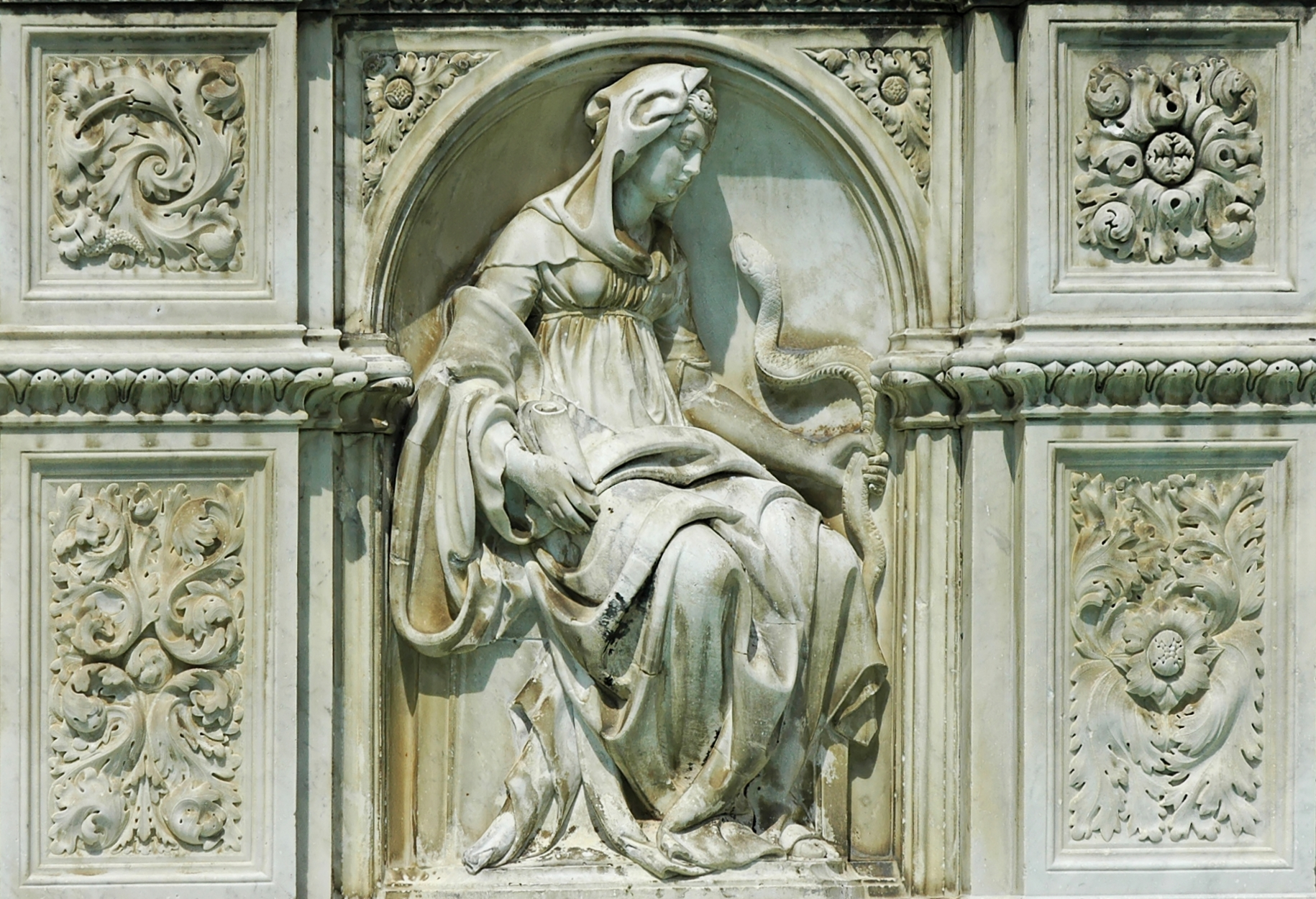 Panel of the Fonte Gaia (Fountain of Joy), piazza del Campo, Siena. The original was the work of Jacopo della Quercia (ca. 1367–1438). Badly deteriorated by long exposure to the elements, the fountain was entirely replaced in 1868 by a copy made by neo-Renaissance sculptor Tito Sarrocchi (1824–1900).